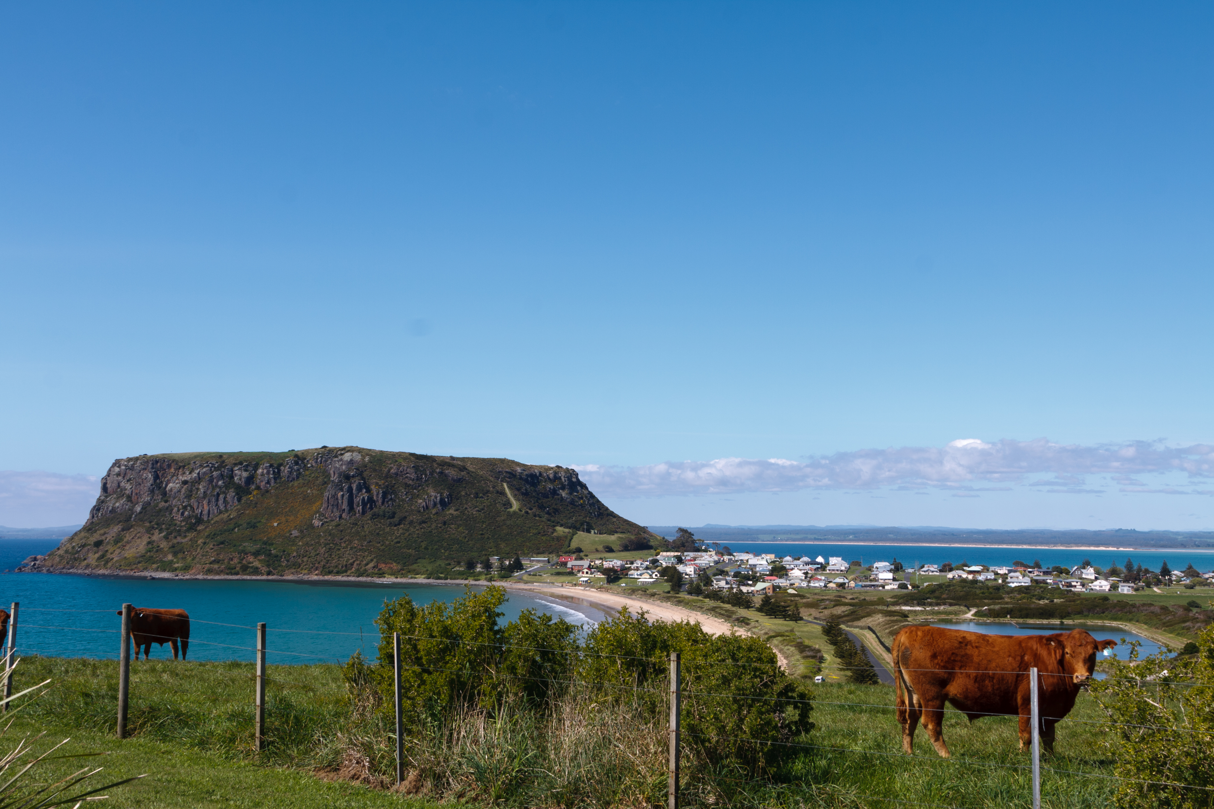 Stanley and The Nut, Tasmania.